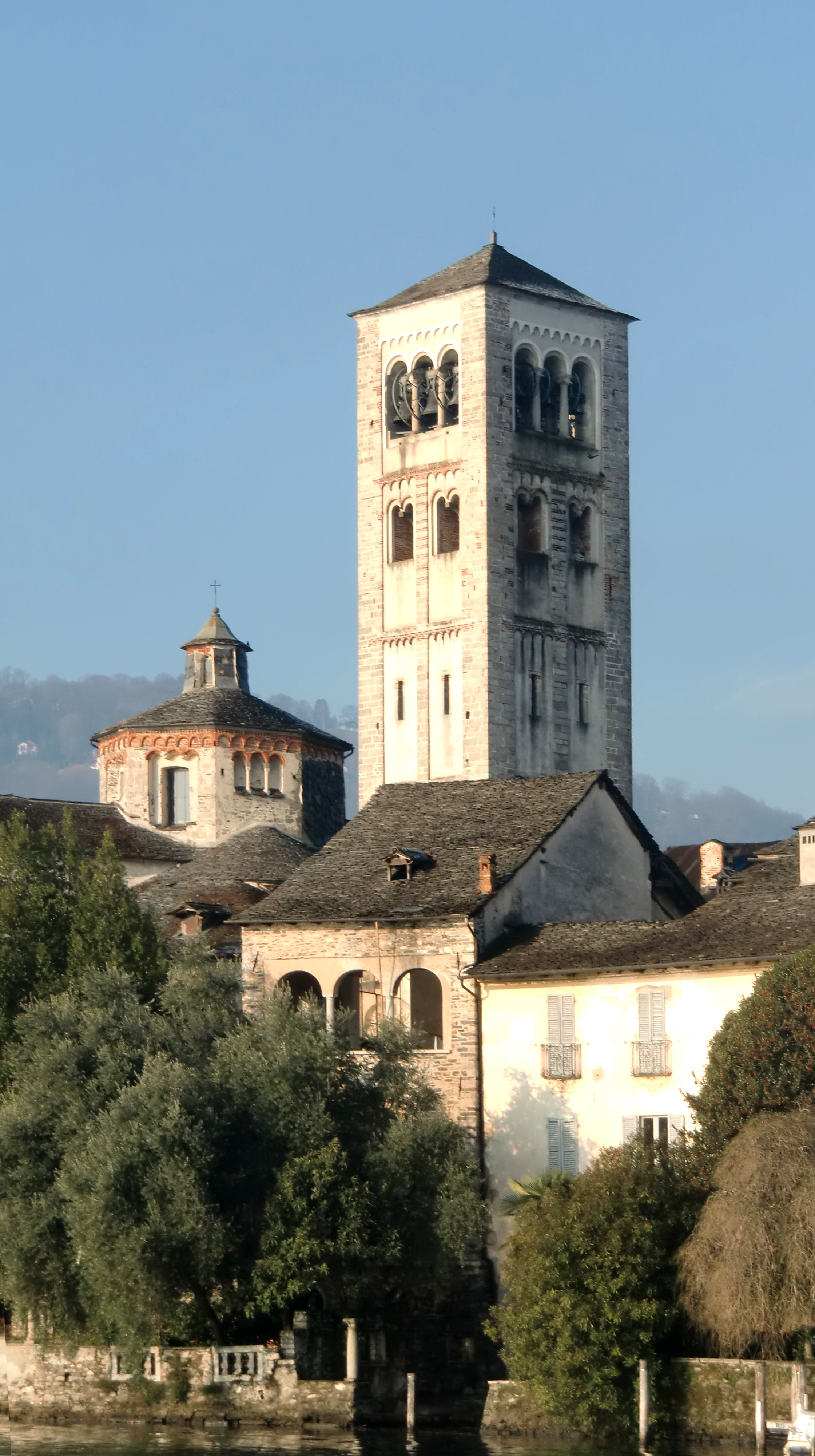 Orta San Giulio, Basilica, view from the lake (the bell-tower and the lantern)